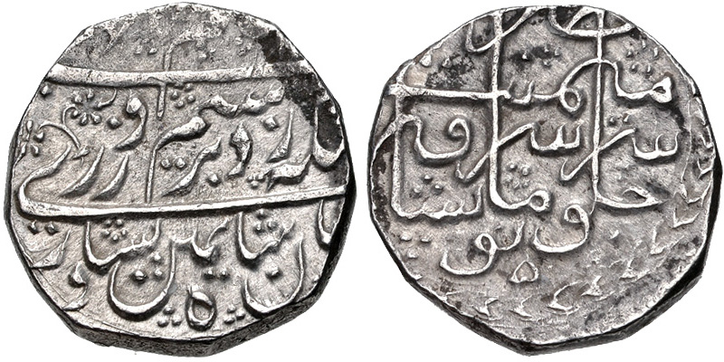 AFGHANISTAN, Durrani Shahs. Zaman Shah. AH 1207-1215 / AD 1793-1800. AR Rupee (22mm, 11.58 g, 7h). Peshawar mint. Dually dated [AH 1212] and RY 5 (AD 1797). Couplet citing Zaman Shah; AH date off flan / Mint formula; RY date in exergue. Album 2108; KM A713. VF, deposits.